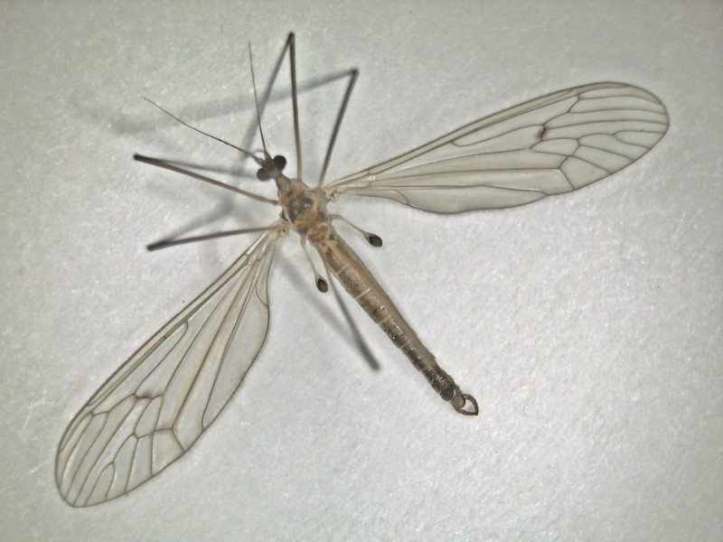 Trichocera regelationis (Trichoceridae) - (male imago), Arnhem - Schuytgraaf, the Netherlands